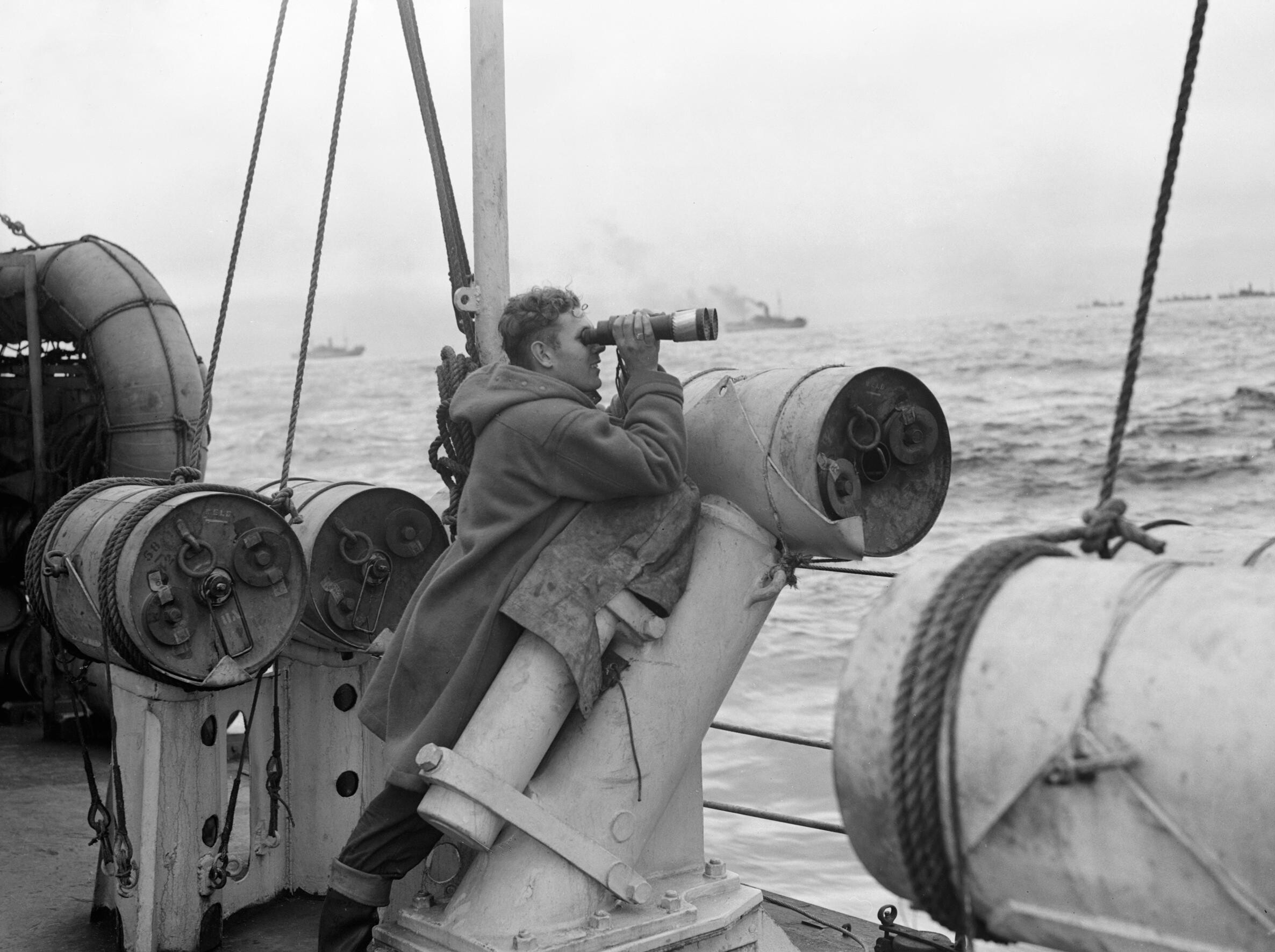 Leaning against a depth charge thrower, the quarterdeck lookout on board HMS VISCOUNT searches the sea for submarines, 1942. Leaning against a Thornycroft Depth Charge Thrower Mark II, the quarterdeck lookout on board HMS VISCOUNT is searching the sea for submarines through a pair of binoculars. Some of the ships being convoyed can be seen in the distance.